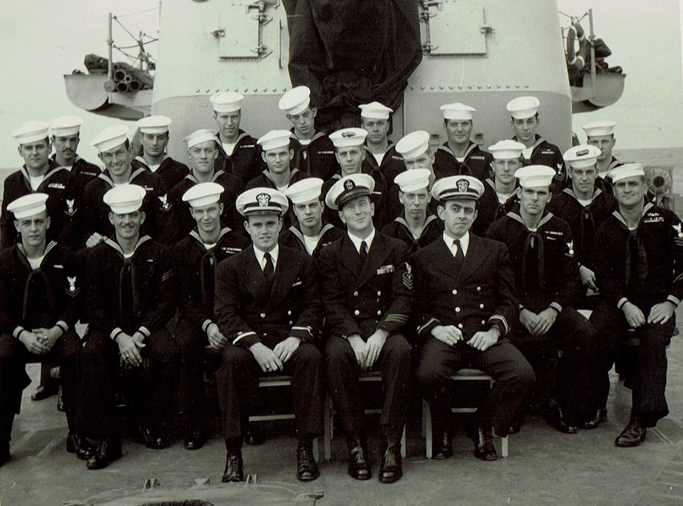 Members of the engine compartment of the U.S. Navy destroyer USS Wadleigh (DD-689), circa in the early to mid-1950s.